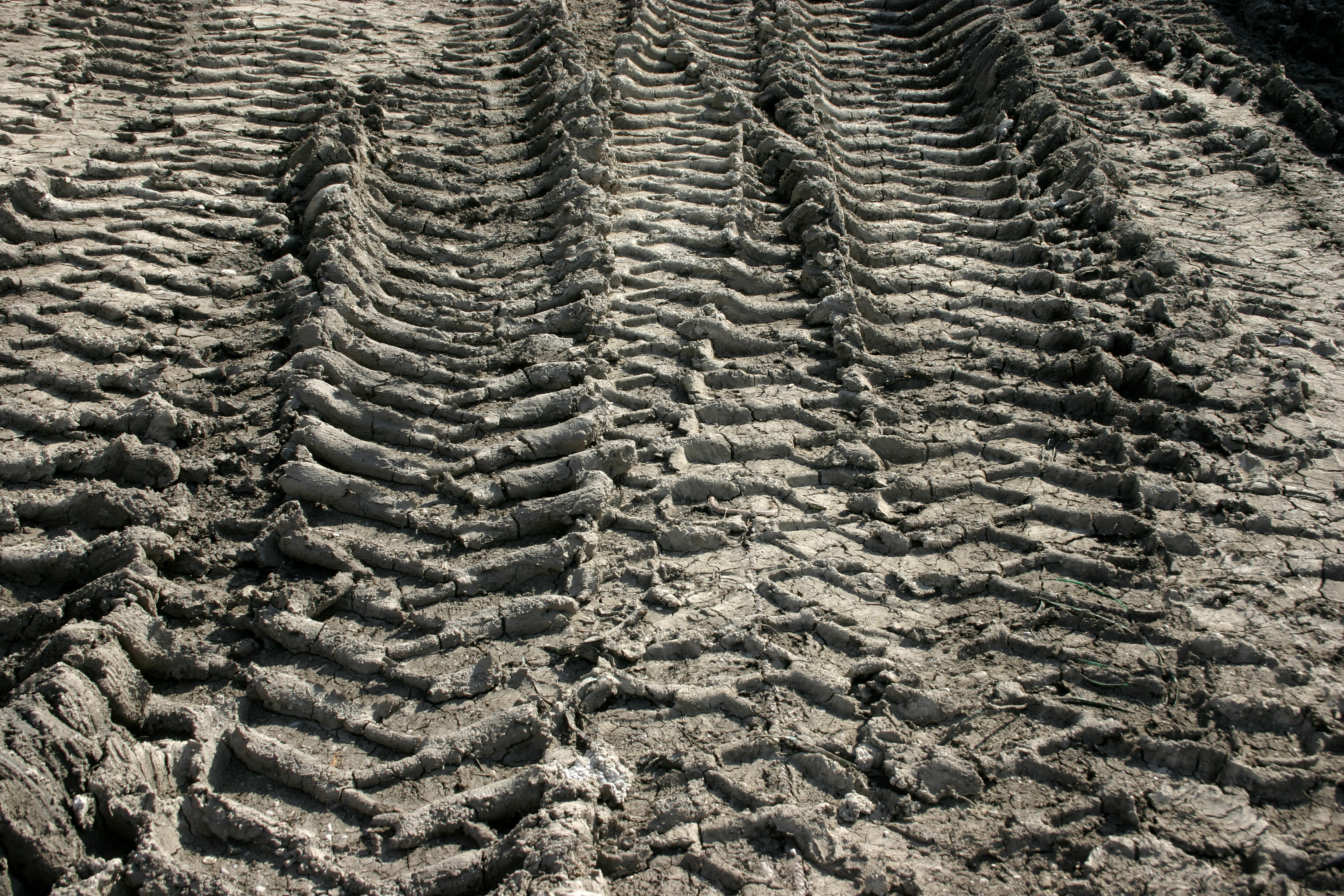 Tire traces on mud